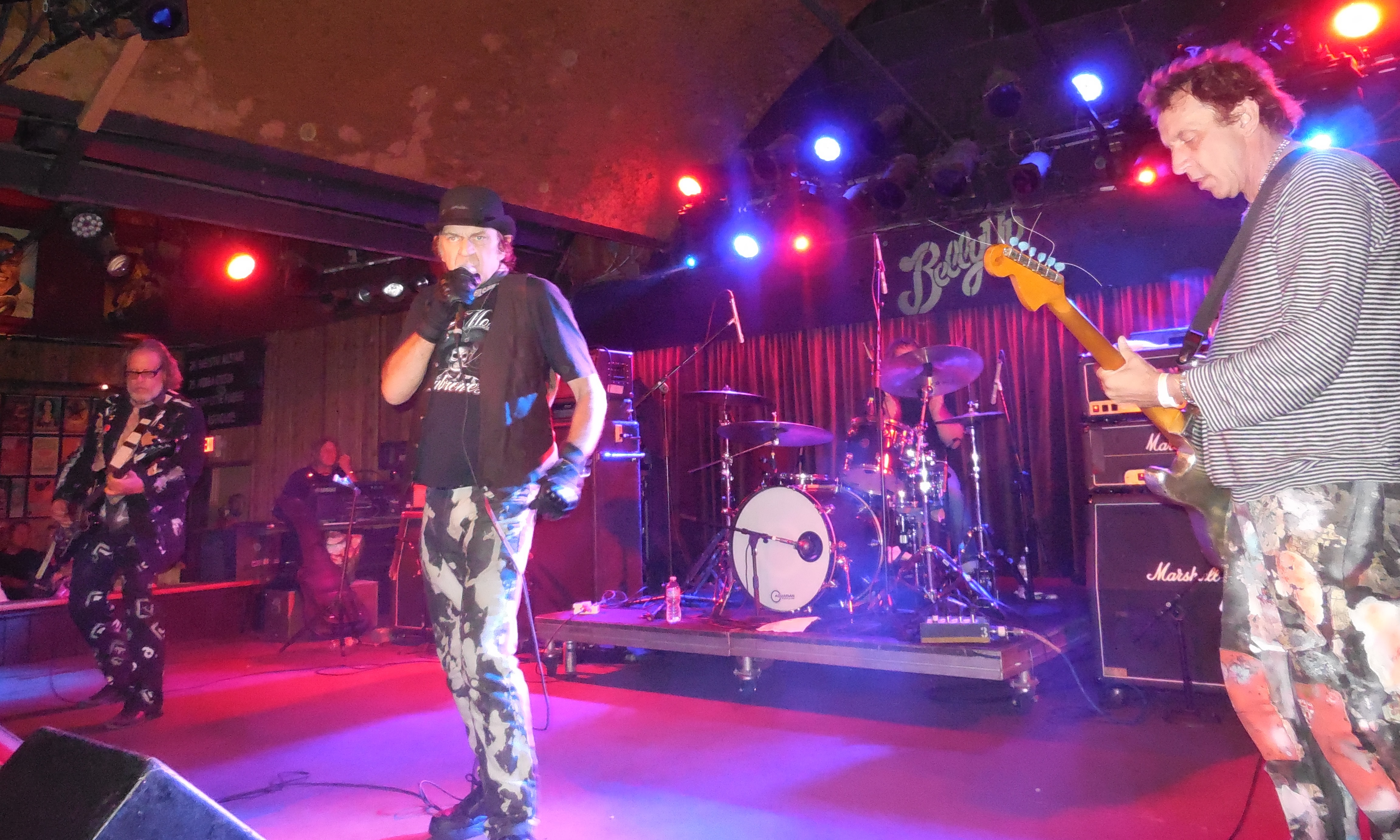 The Weirdos performing at the Belly Up in Solana Beach, California on July 23, 2015. Left to right: bassist Zander Schloss, singer John Denney, touring drummer (name unknown), and guitarist Dix Denney.